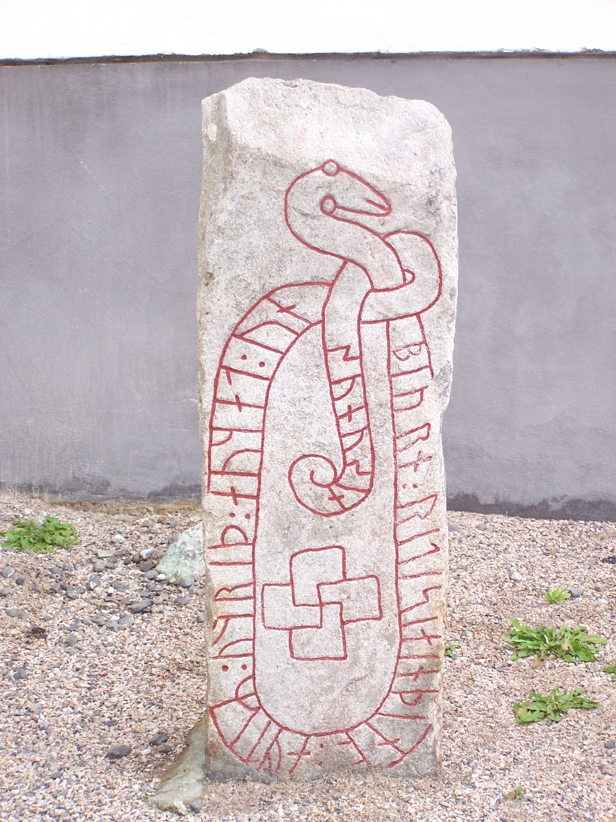 Runestone at Skön church, Sundsvall, Sweden